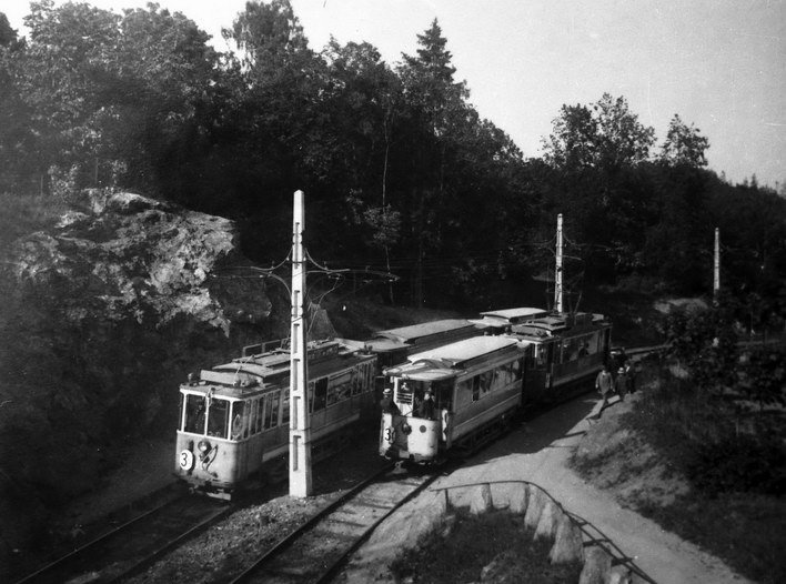 KES Class SS trams 327 and 358 on the Lilleaker Line.